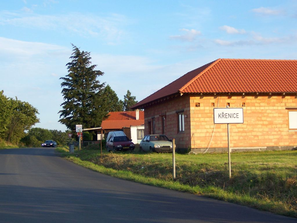 Křenice (Prague-East District)